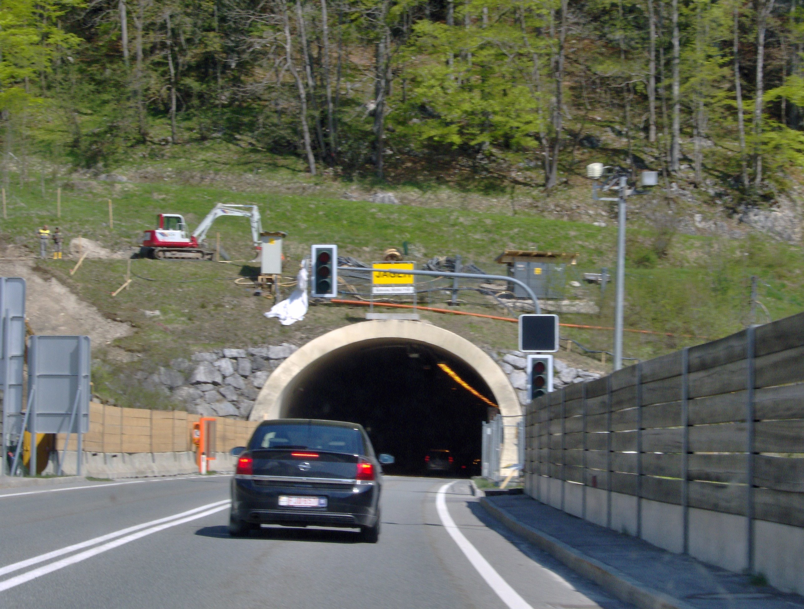 The Grenztunnel Füssen on the boarder between Germany and Austria, view on the southern tunnel inlet on Austrian side